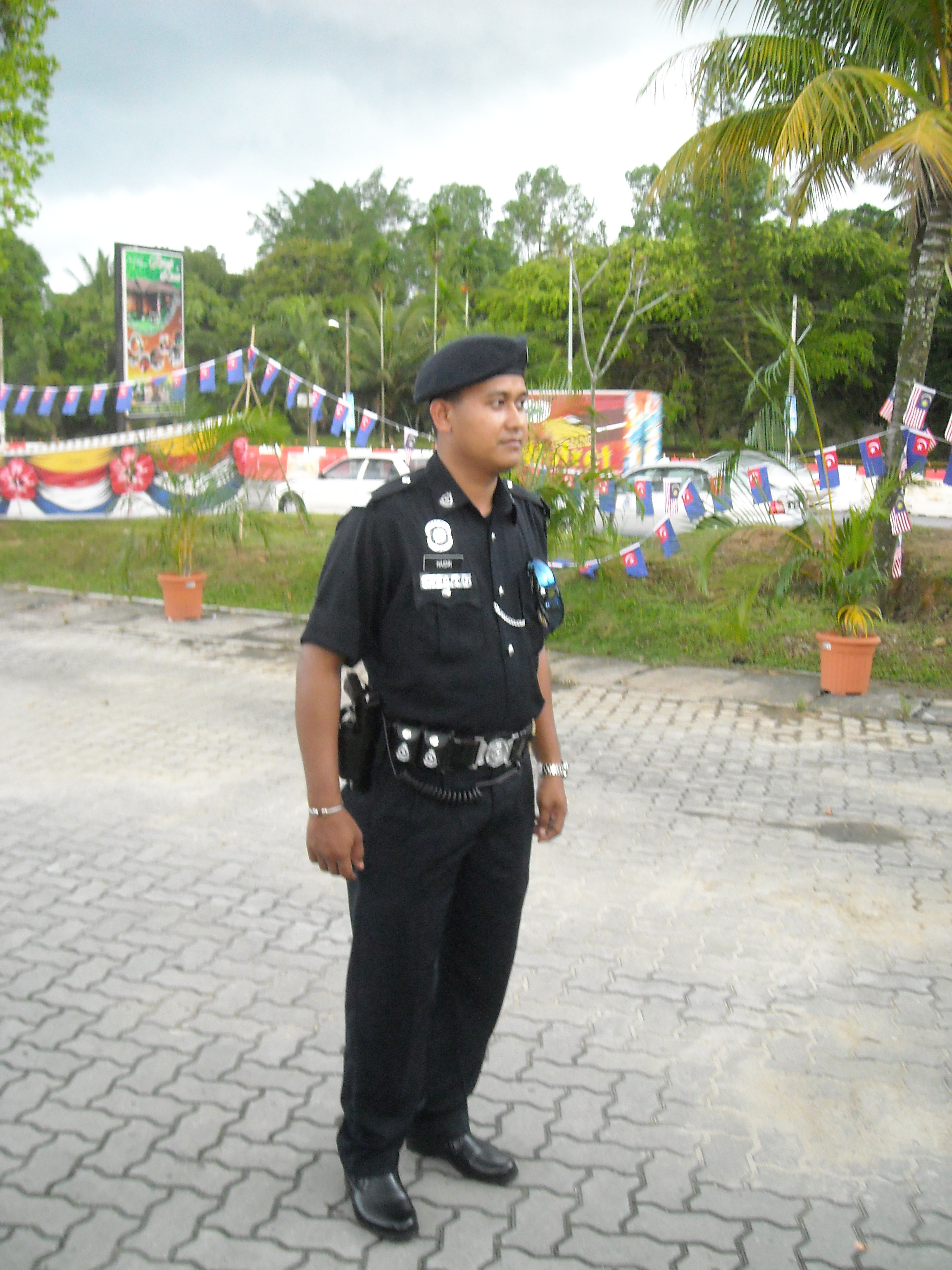 The Police Volunteer Reserve of Royal Malaysian Police officer patroling during launching the Danga Bay Police Station by Malaysian Home Minister, Dato' Hishamuddin Hussein at Danga Bay, Johore Bahru. He is equipped with the old 5-rounds of .38 Special Smith & Wesson service revolver.